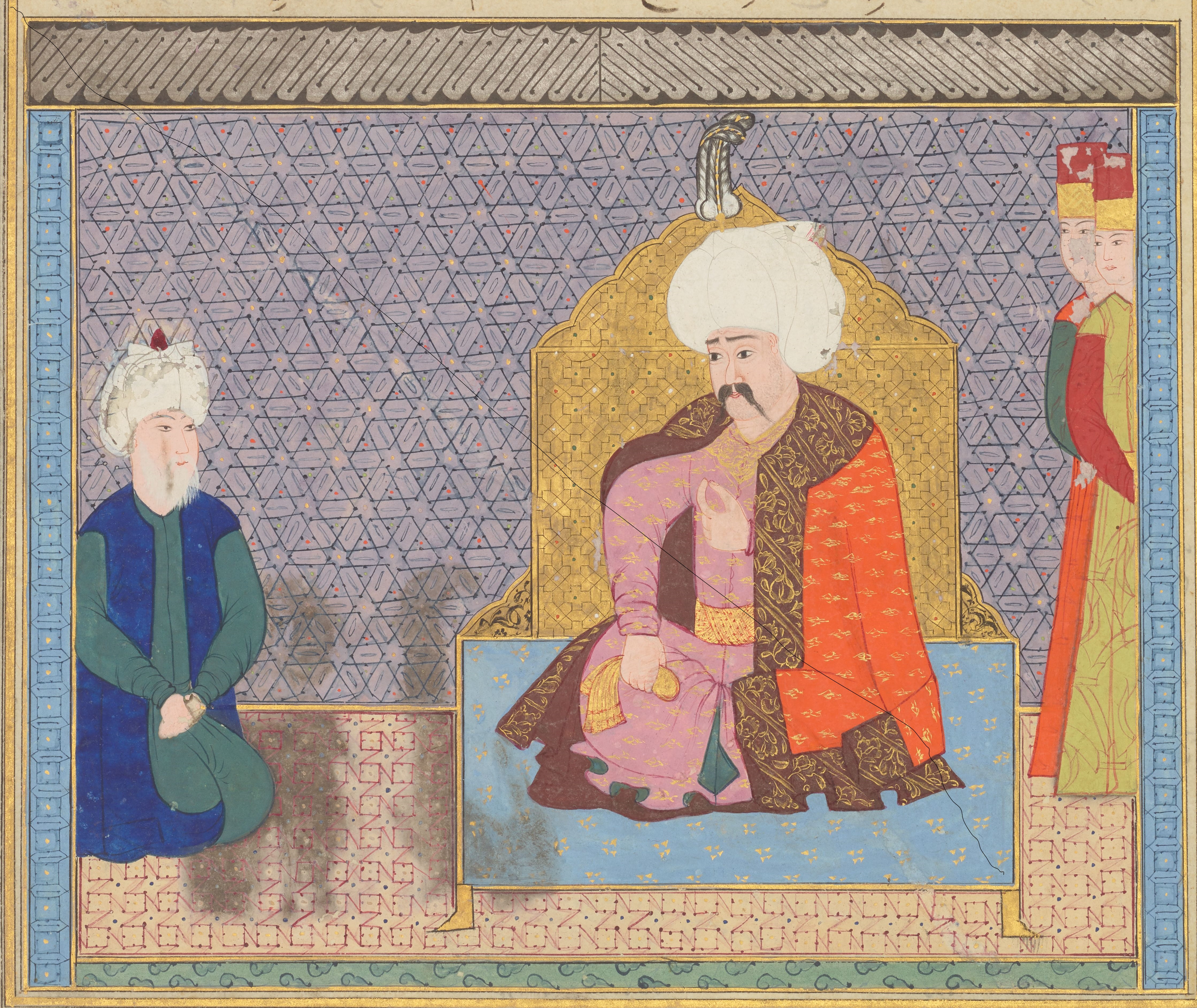 Sultan Selim I and Grand Vizier Piri Mehmed Paşa.